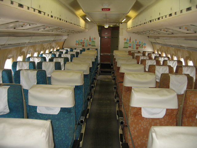 Take Your Seats Please. Inside the VC-10 at Duxford. A popular plane in its day.